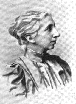 An older white woman, with grey hair dressed back in a bun; she is seen almost in profile, wearing a high-collared dress.